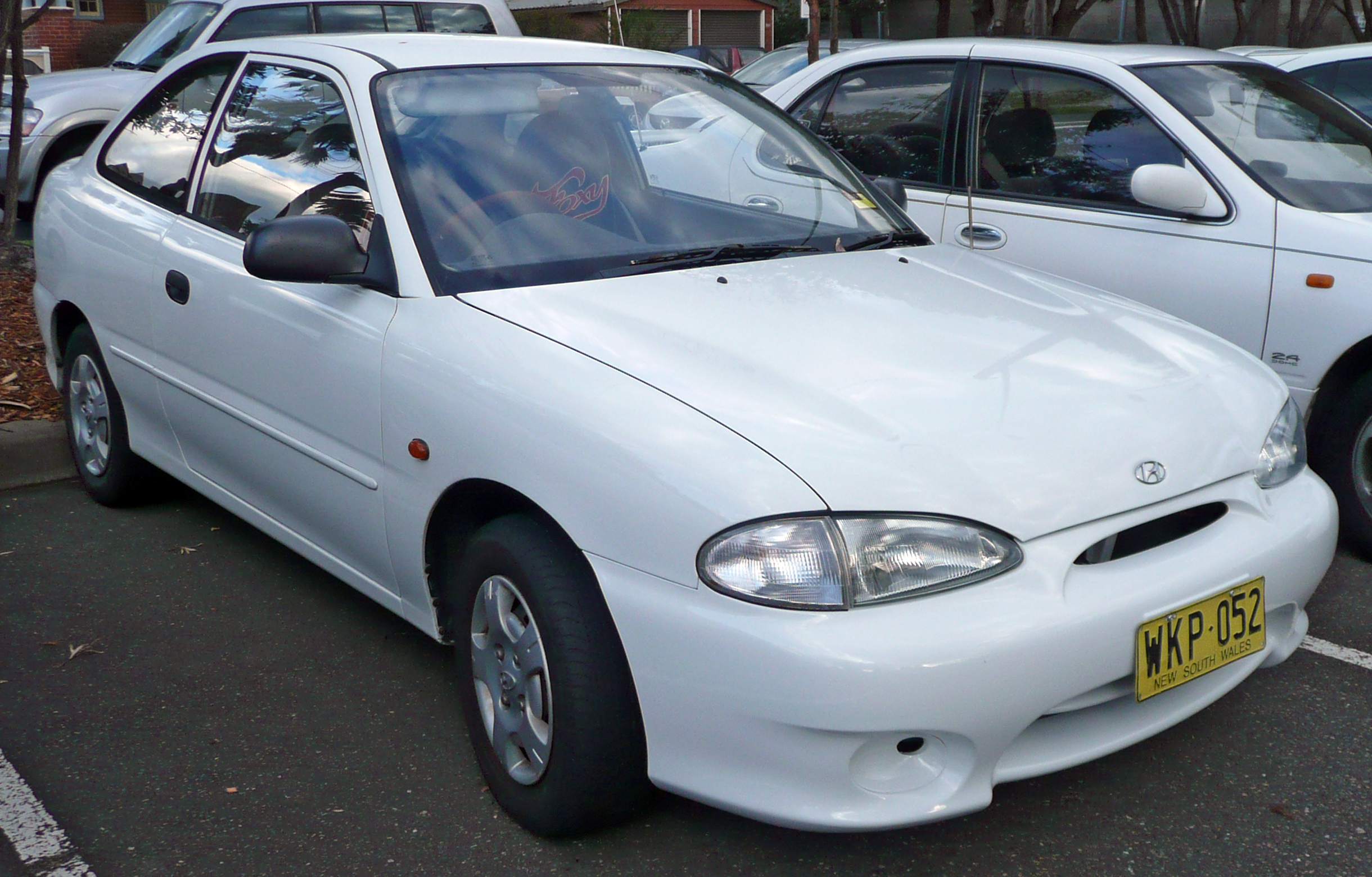 2000 Hyundai Excel (X3) Sprint 3-door hatchback. Photographed in Sutherland, New South Wales, Australia.